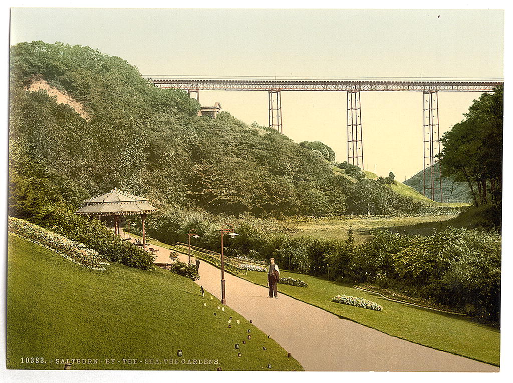 [Saltburn-by-the-Sea, the gardens, Yorkshire, England] [between ca. 1890 and ca. 1900]. 1 photomechanical print : photochrom, color. Notes: Title from the Detroit Publishing Co., Catalogue J--foreign section, Detroit, Mich. : Detroit Publishing Company, 1905. Print no. "10383". Forms part of: Views of the British Isles, in the Photochrom print collection. Subjects: England--Saltburn-by-the-Sea. Format: Photochrom prints--Color--1890-1900. Repository: Library of Congress, Prints and Photographs Division, Washington, D.C. 20540 USA, Part Of: Views of the British Isles (DLC) 2002696059 More information about the Photochrom Print Collection is available at Higher resolution image is available (Persistent URL): Call Number: LOT 13415, no. 1072 [item]